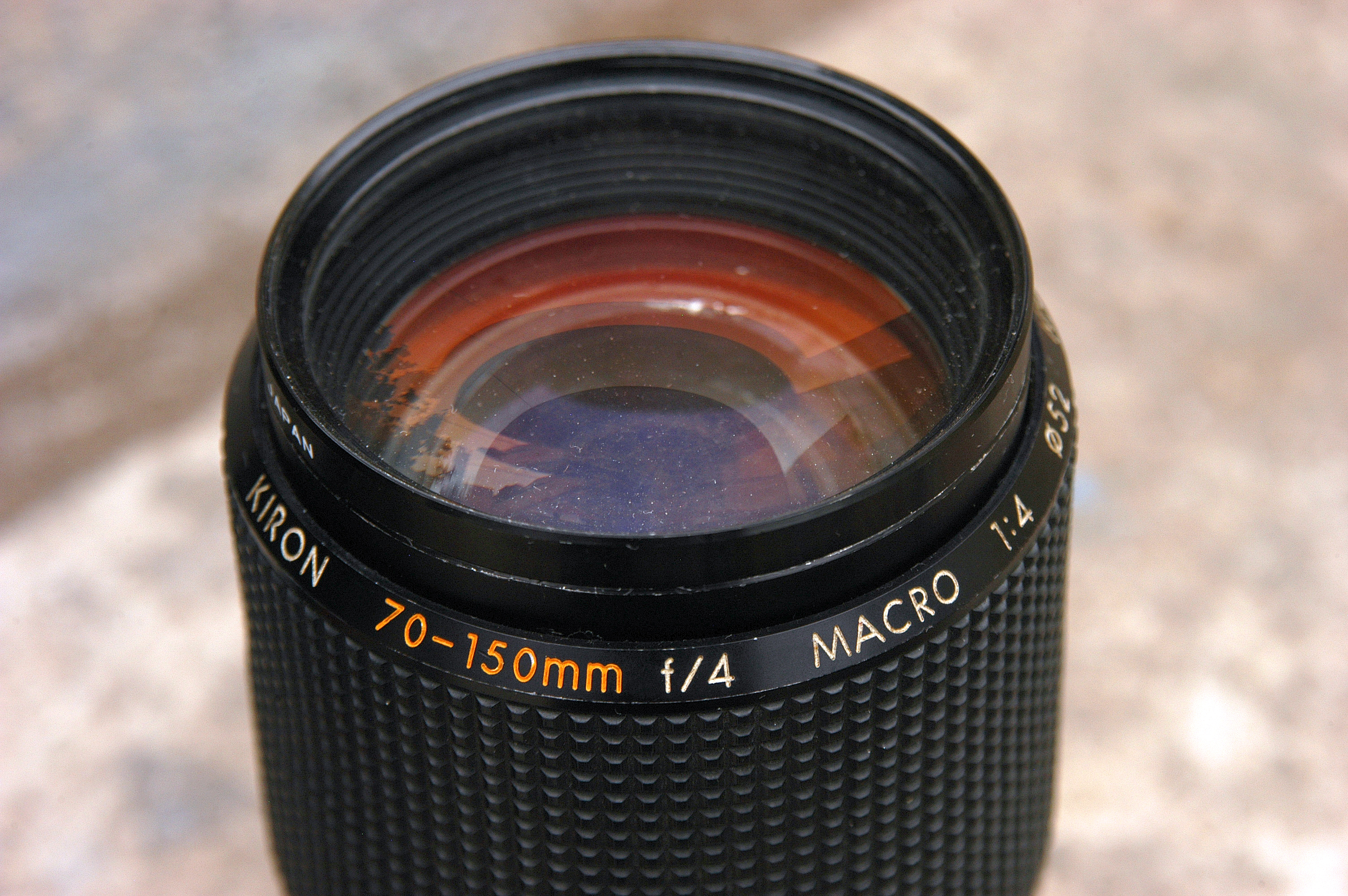 Kiron Lens, 70-150mm f/4.0